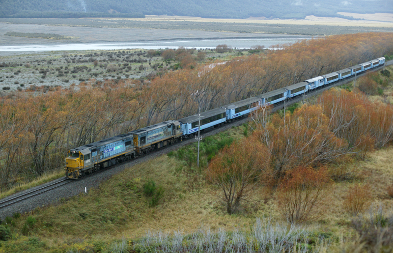 Photograph by Darryl Bond of two DC class locomotives heading the TranzAlpine train on the Midland Line. Source